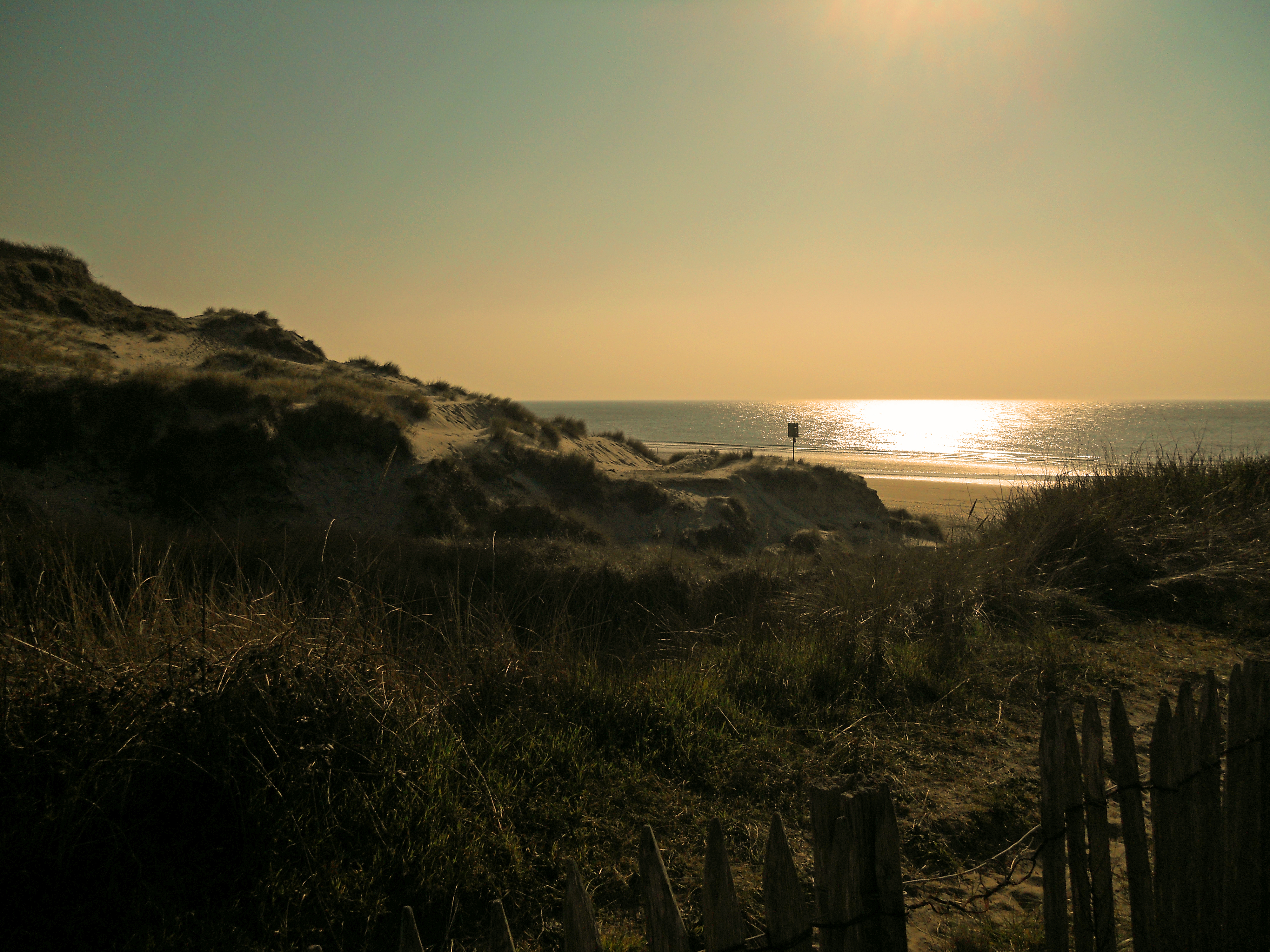 The White Dune of Ecault who part from the Dunes of Ecault in Saint-Etienne-au-Mont